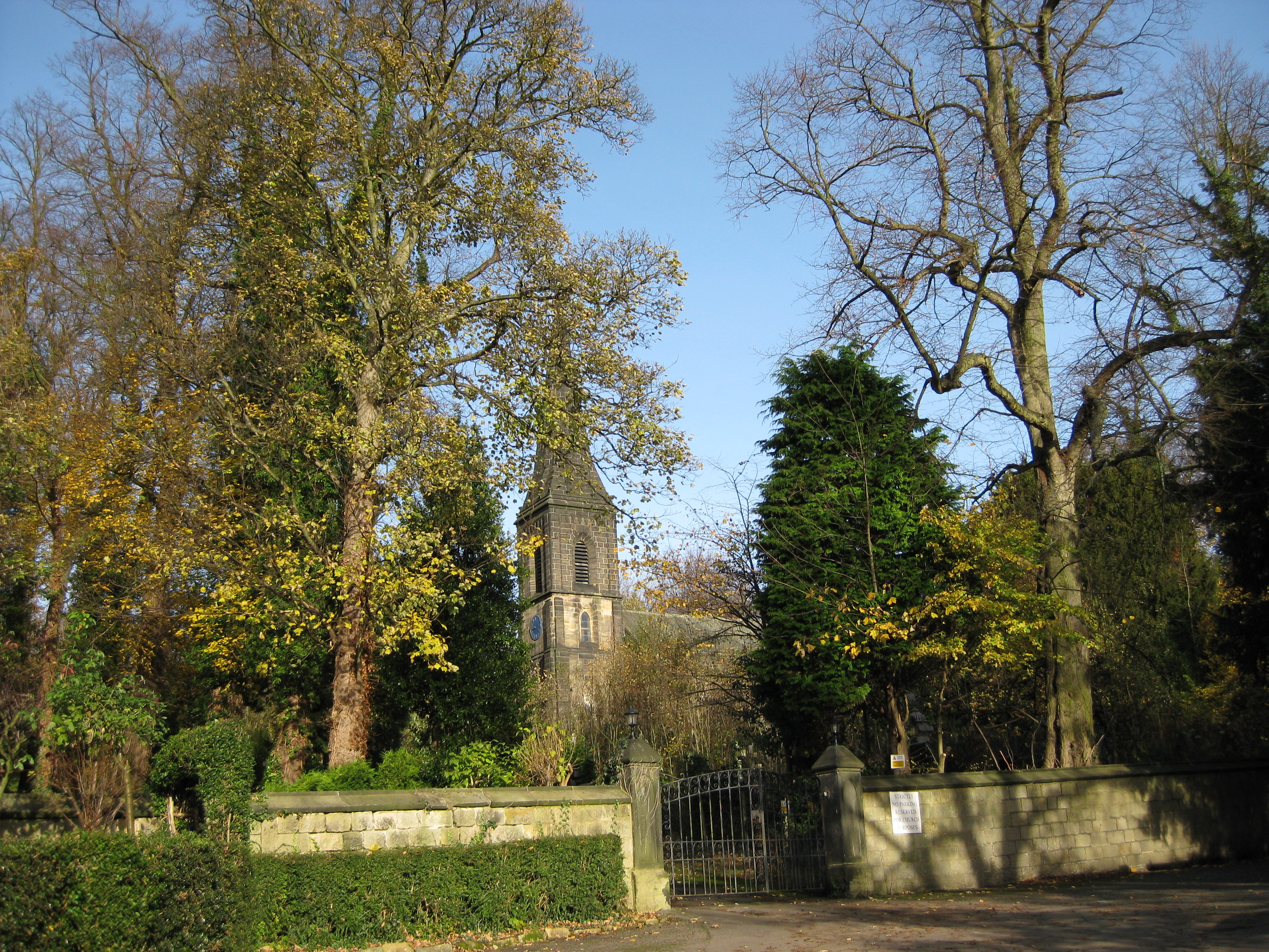 Former Church of England parish church of St John, Wetherby Road, Roundhay, Leeds, West Yorkshire, LS8 2LE